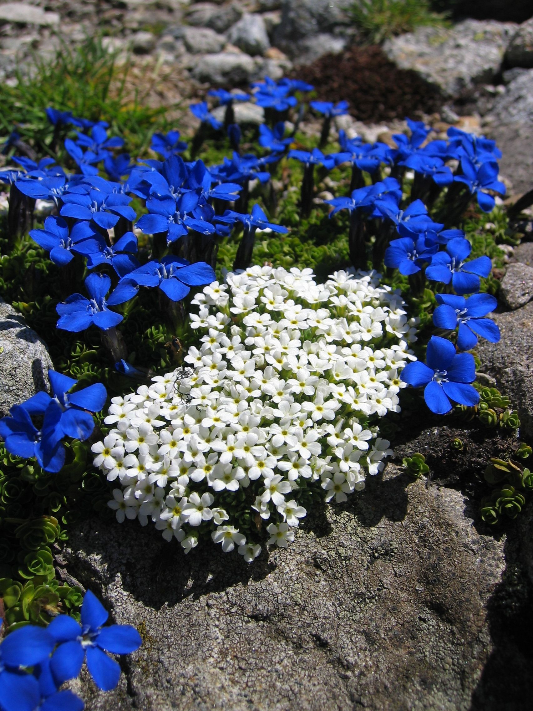 Androsace alpina with 'Gentiana bavarica subsp. subacaulis, Großer Hafner ~ 3000 m, Austria